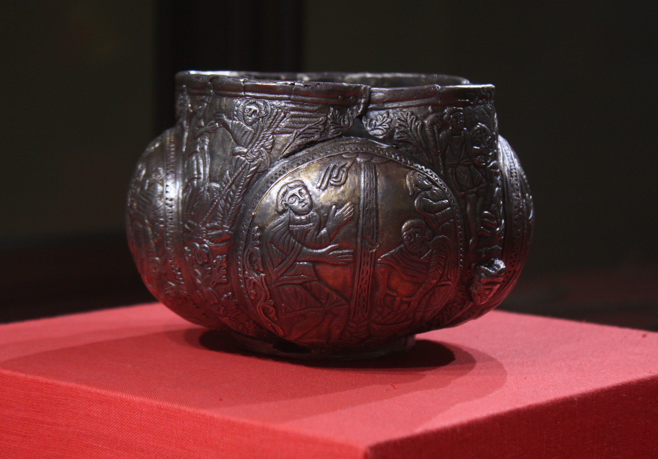 So-called Włocławek Goblet, 1st half of the 10th century (Cracow, National Museum, Gallery of Decorative Art)